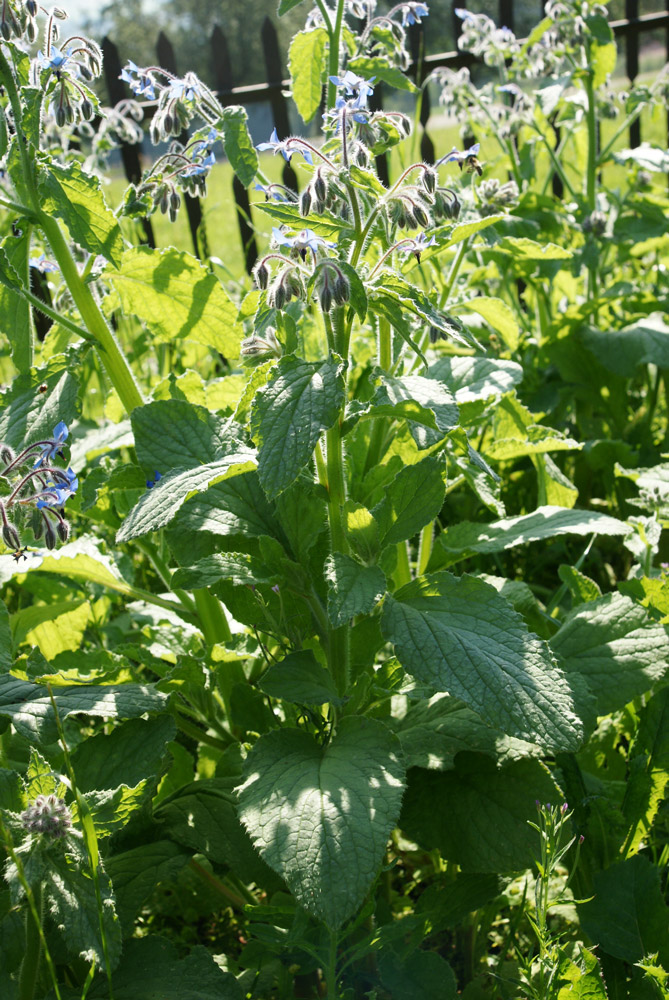 Borago officinalis